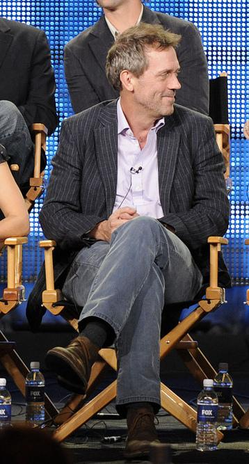 2009 FOX WINTER TCA: (L-R) Hugh Laurie and executive producers Katie Jacobs and David Shore during the HOUSE session of the 2009 FOX WINTER TCA Tuesday, Jan. 13 at the Universal Hilton in Universal City, CA.